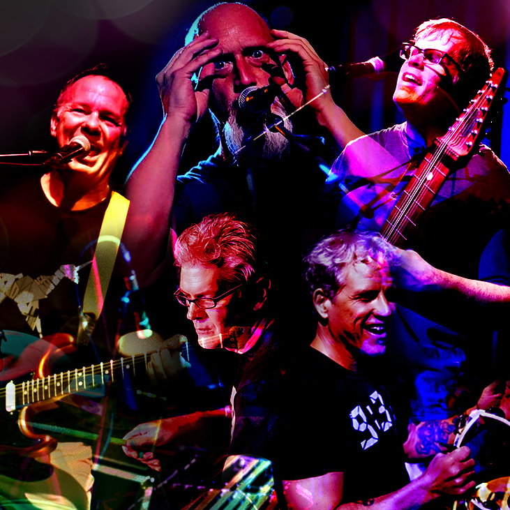 Collage of the band Ten Hands created my me, Steve Brand, who is in the band. Pictured is Steve Brand, Paul Slavens, Gary Muller, Mike Dillon and Alan Emmert.